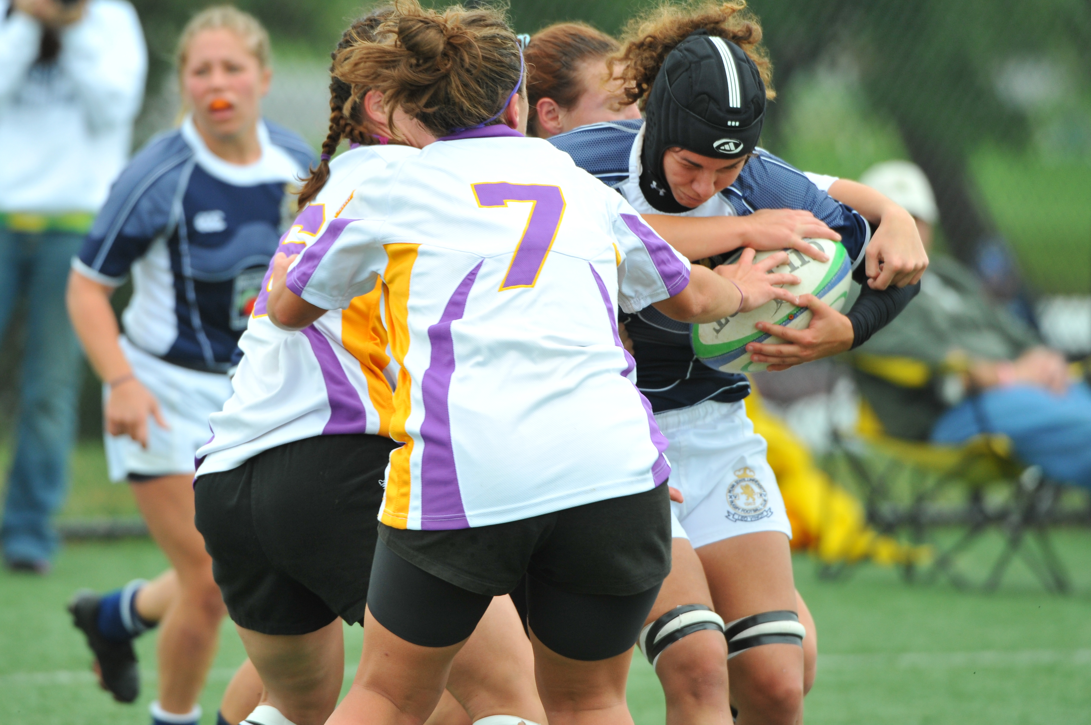 Penn State Women's Rugby Players run in near the try line against West Chester University in a college league match during the 2008-2009 season where Penn State won the national title.